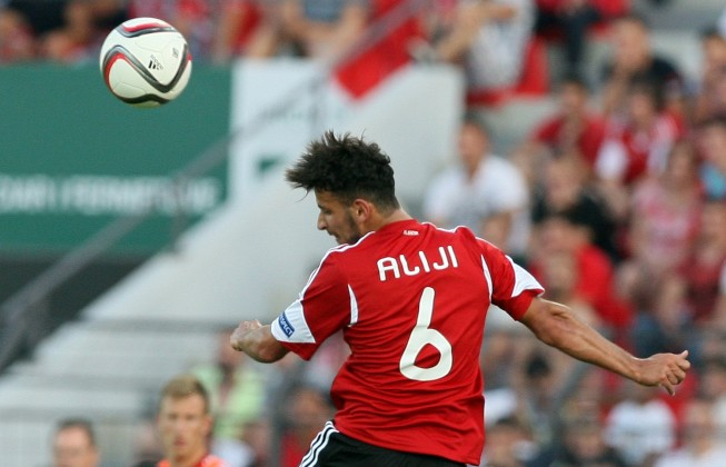 Futbollist shqiptar...